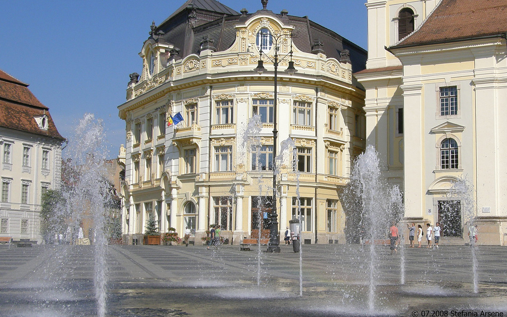 Sibiu City Hall